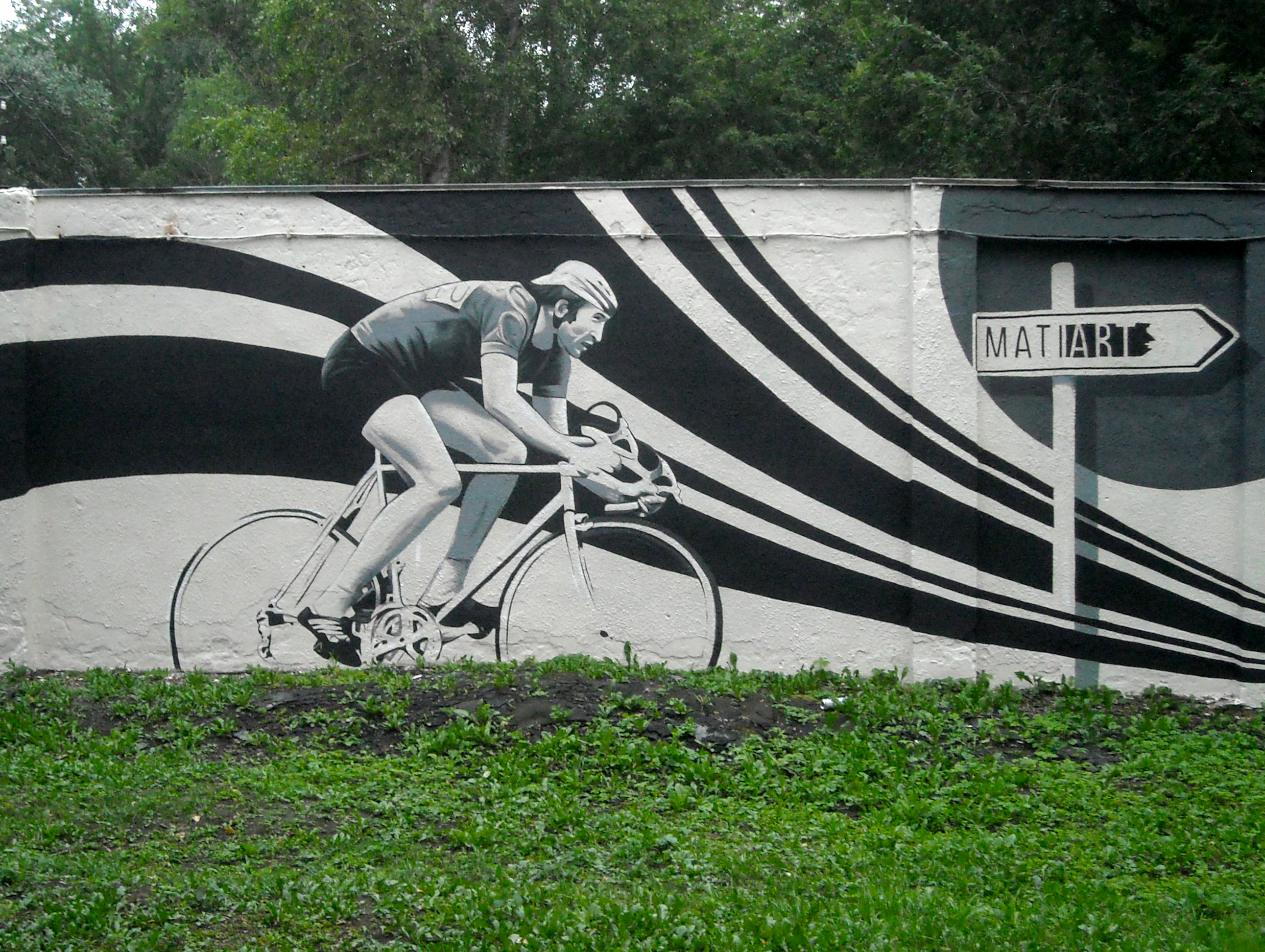 Graffiti of Valery Chaplygin in the Boyevka park, Kursk, Russia.